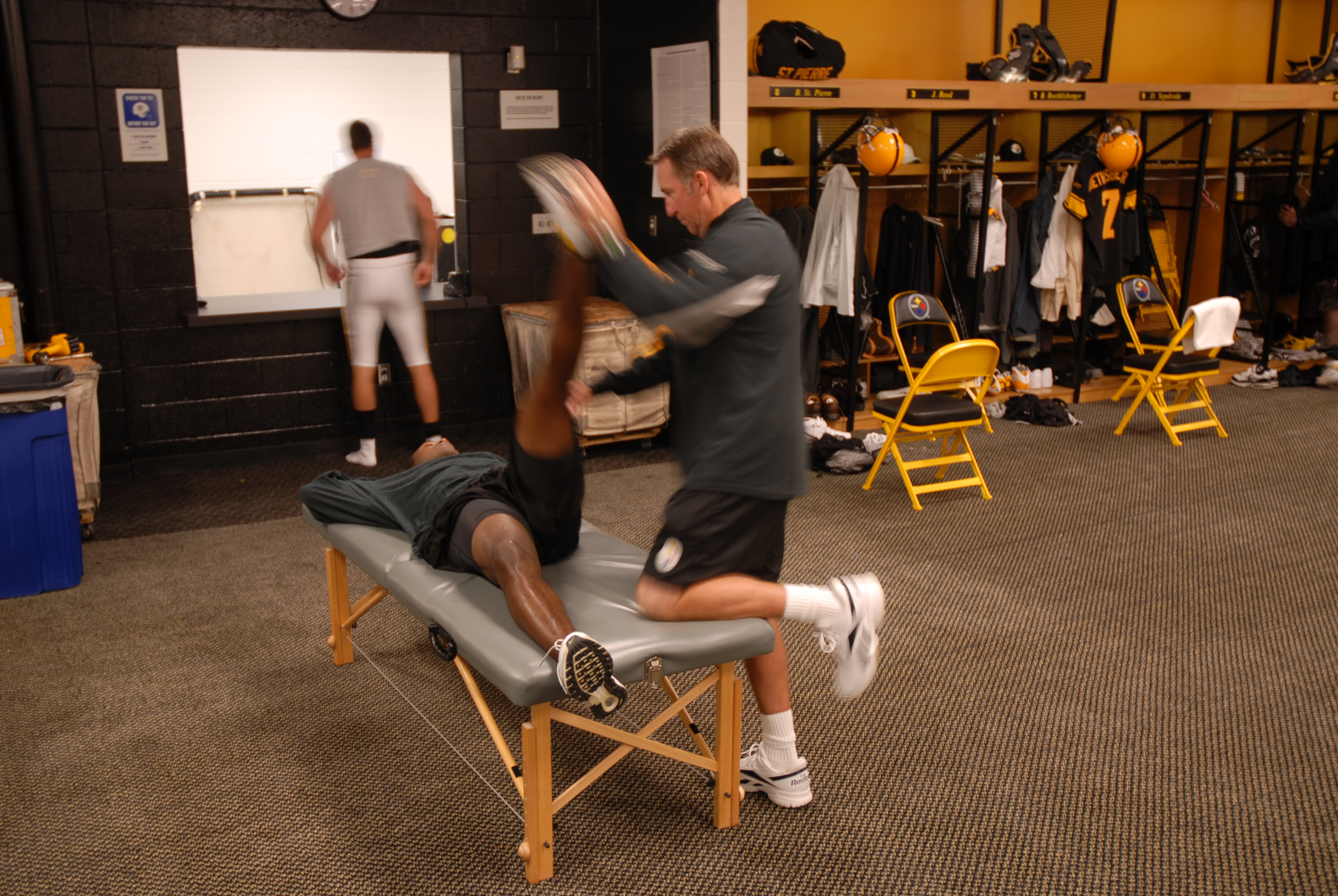 A coach stretches out a Pittsburgh Steeler prior to their 2007 home opener. The Steelers 75th anniversary throwback uniforms can be seen in the background.